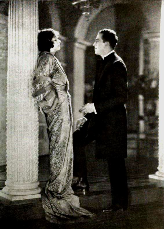 Norma Talmadge and Eugene O'Brien, page 45 of the September 1922 Photoplay.